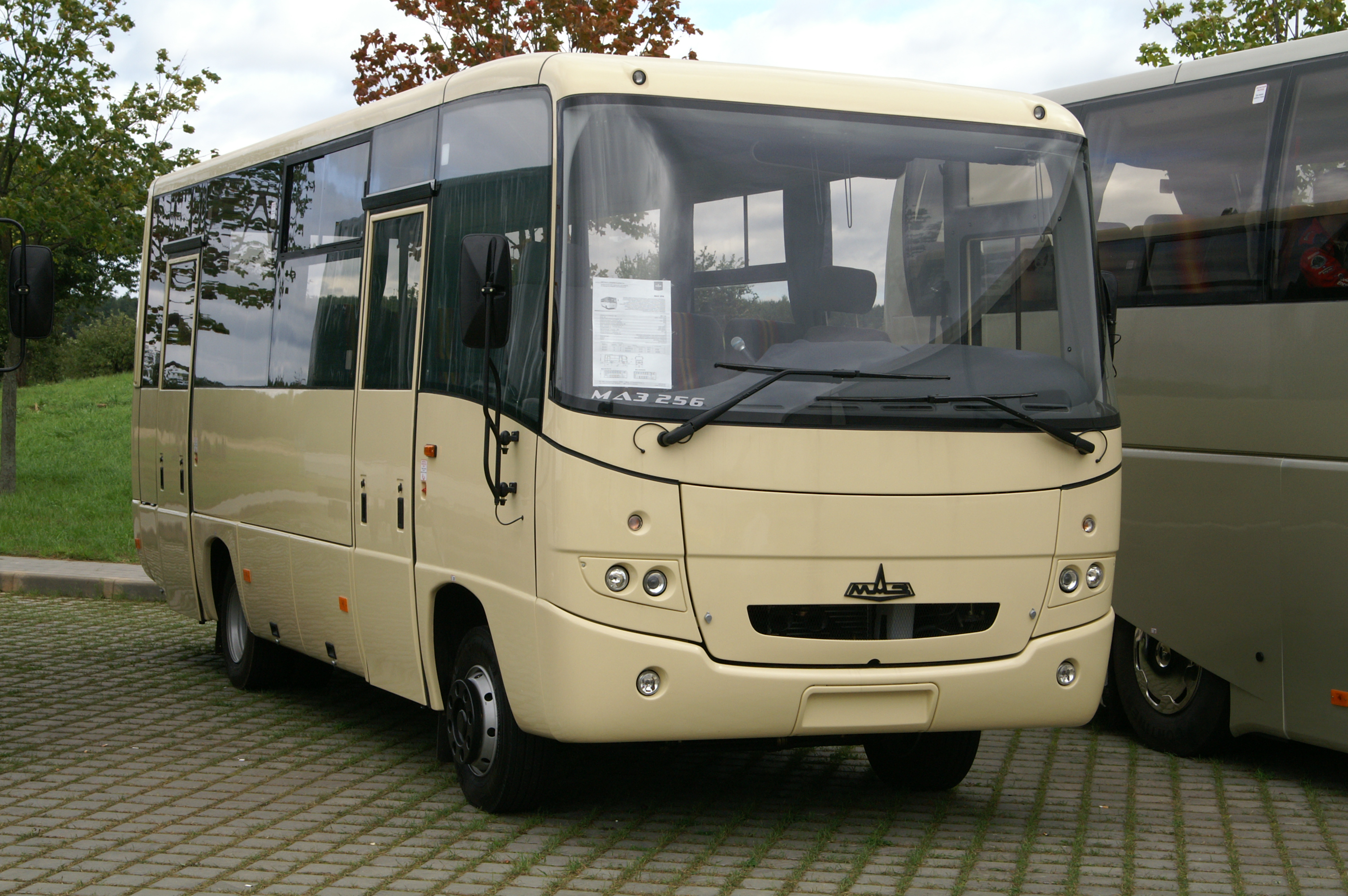 Belarussian bus MAZ-256 in Minsk, Belarus.